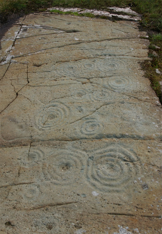 Cairnbaan Cup And Ring Marks, Kilmartin Glen, Scotland - eastern rock sheet